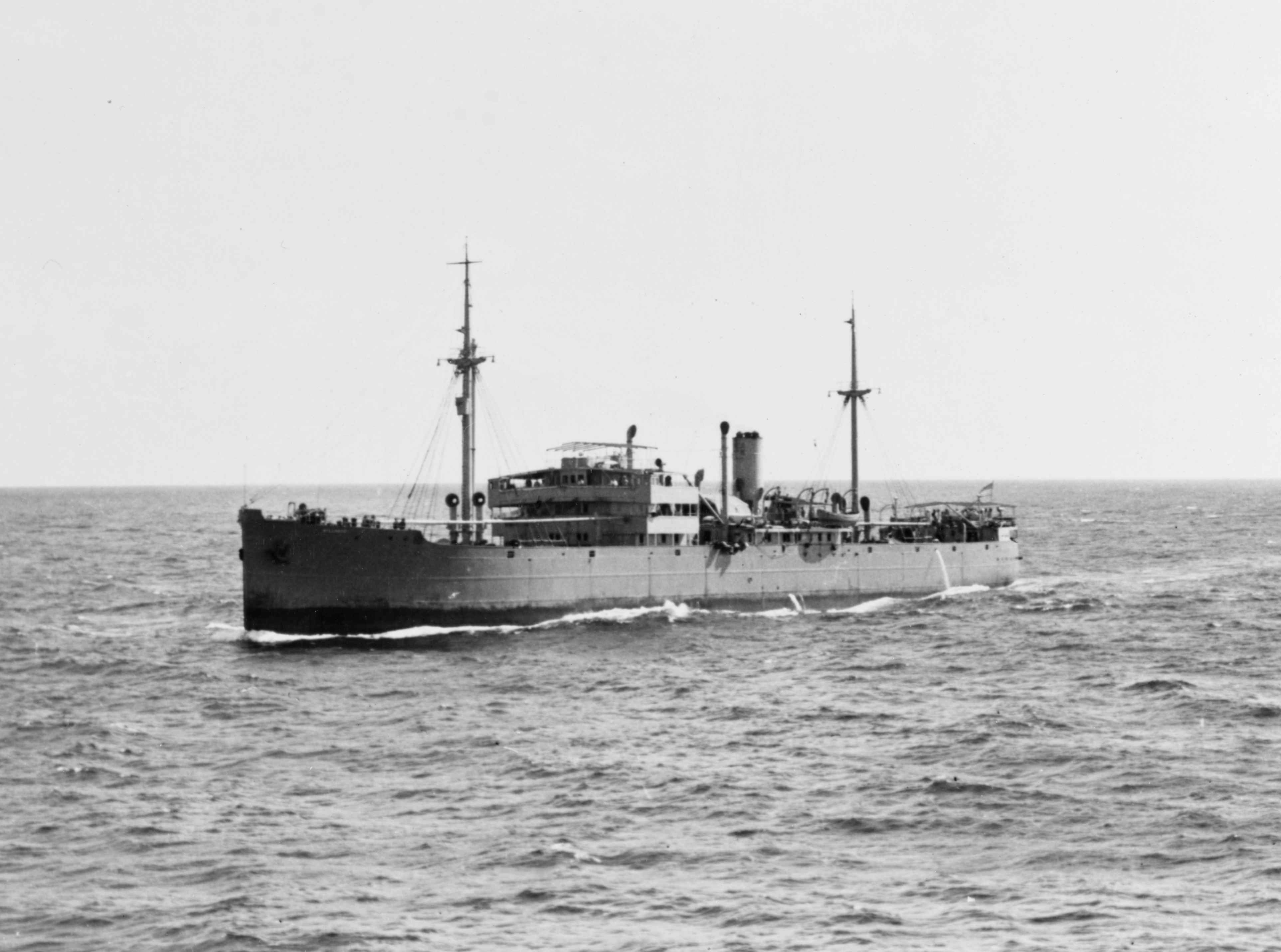 The German blockade runner Odenwald underway. Odenwald was stopped and boarded by the U.S. Navy light cruiser USS Omaha (CL-4) in the South Atlantic, 6 November 1941. Odenwald was disguised as the U.S. merchantman SS Willmoto and the crew unsuccessfully tried to scuttle the ship. Omaha's boarding party stopped the flooding, got the ship underway again and sailed it to Trinidad. This became known as the "Odenwald incident", as Germany and the United States were not at war at that time. After Germany had declared war on the U.S. on 11 December 1941, Odenwald was seized and put into U.S. service as SS Blenheim.